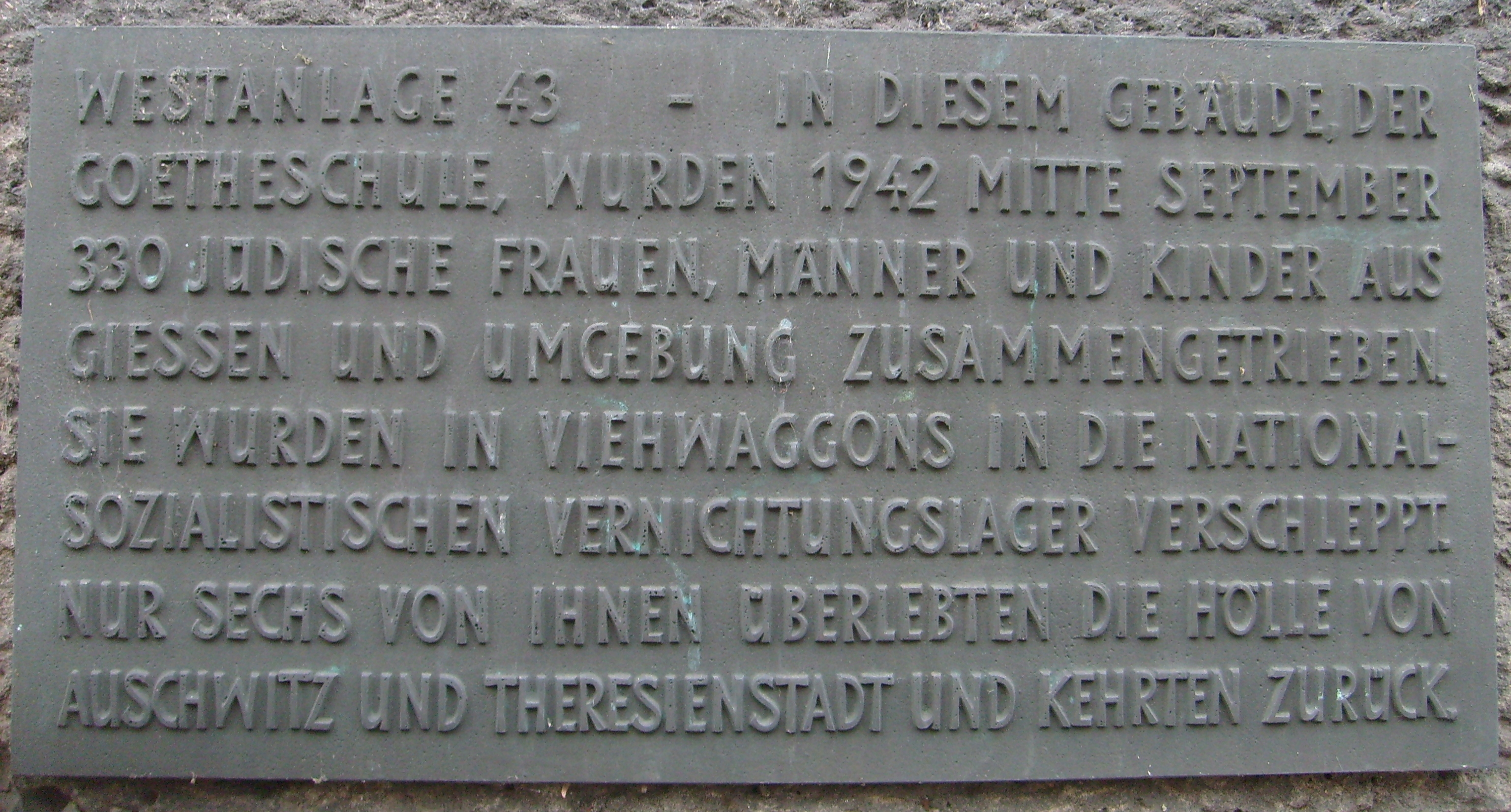 Memorial plaque deportation, Goetheschule, Westanlage 43, Gießen, Germany